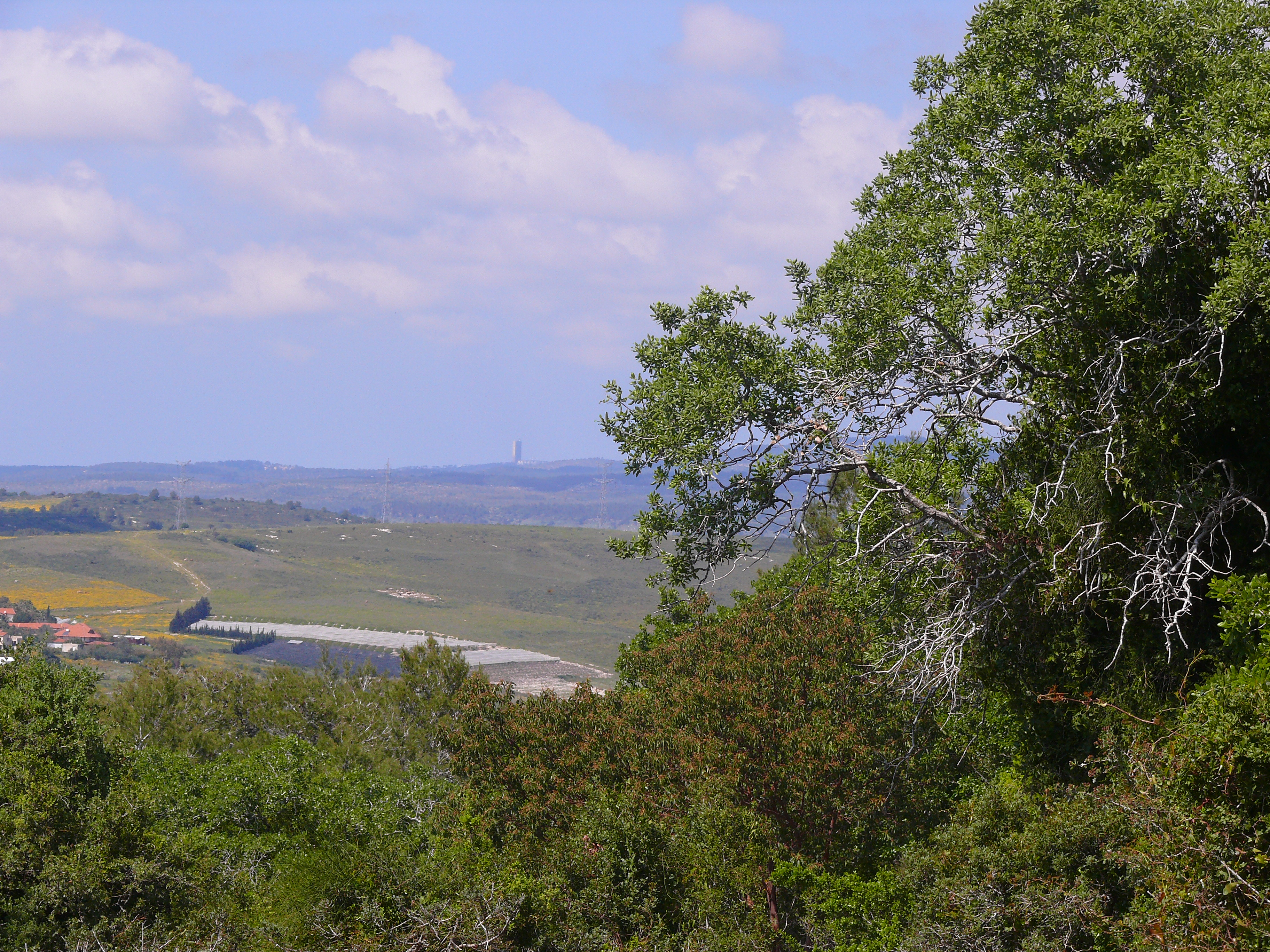 View north-west from Mount Chorshan reserve, Israel